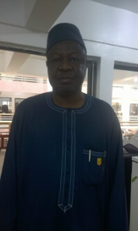 Dr. Ahmed Tijjani Mora Ph.D, FPSN, FPC.Pharm, FICEN, FIHMNI, mni